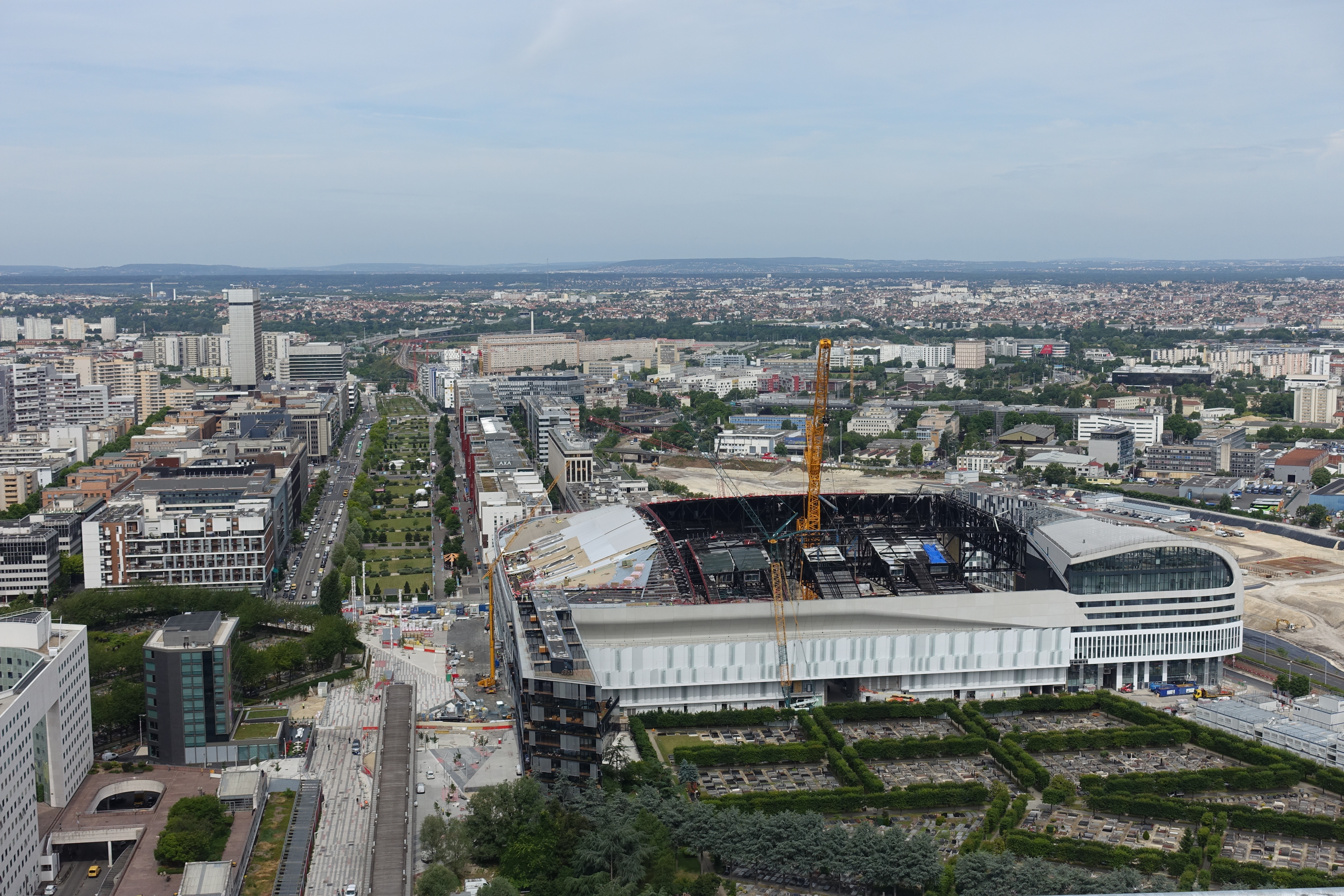 La Défense, a major business district just west of the city limits of Paris. It is part of the Paris Metropolitan Area in the Île-de-France region, located in the department Hauts-de-Seine spread across the commune of Courbevoie, as well as parts of Puteaux and Nanterre.